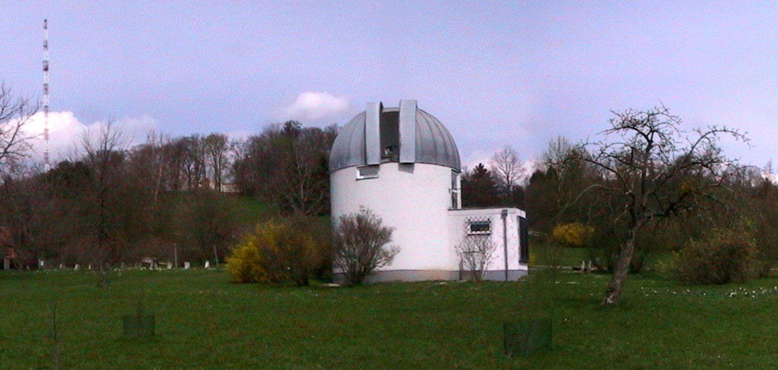 Johannes-Kepler-Observatory, Linz, Austria. The Freinberg transmitter mast is seen in the background at left.